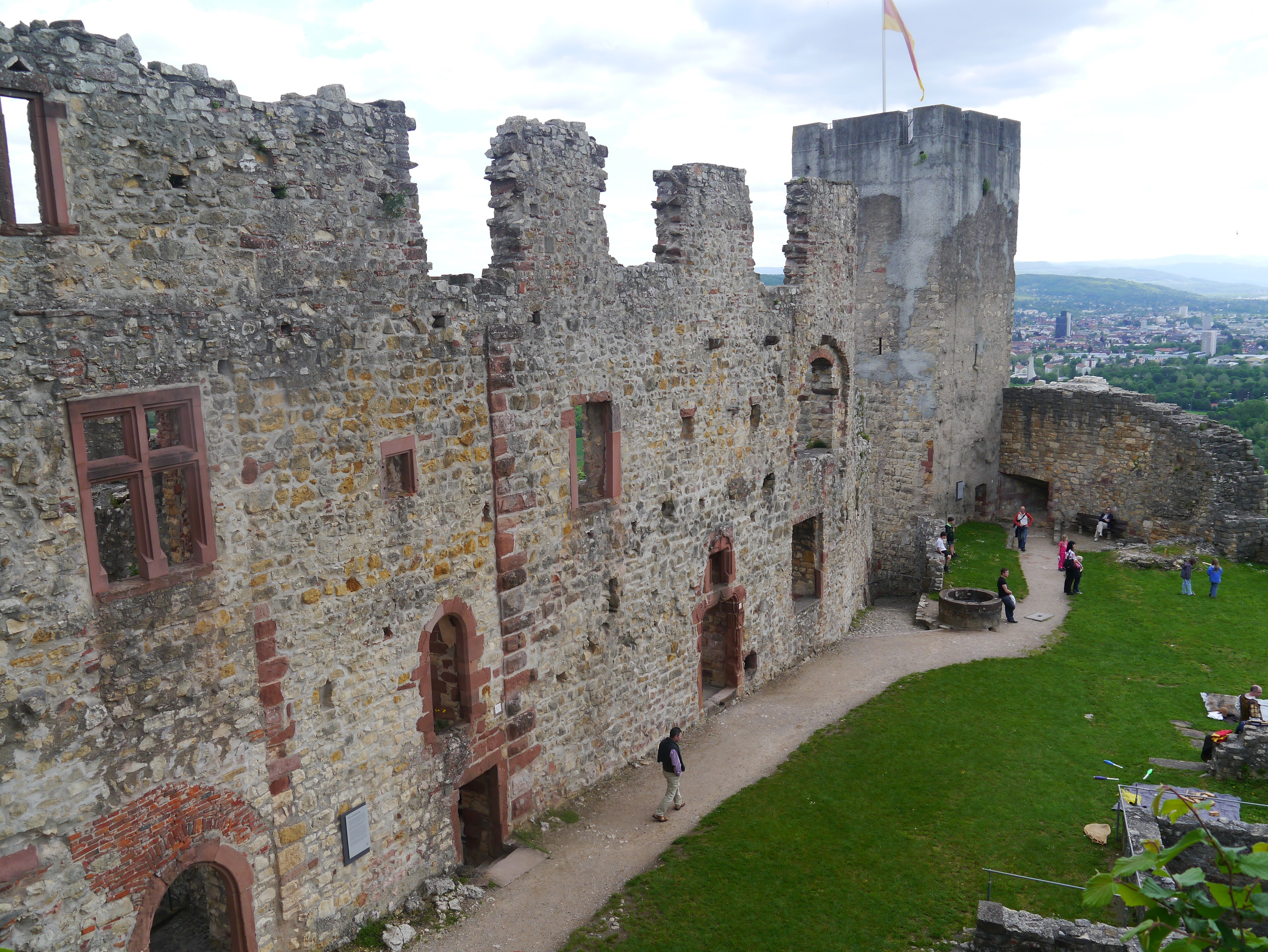 Rötteln Castle Ruines, Lörrach